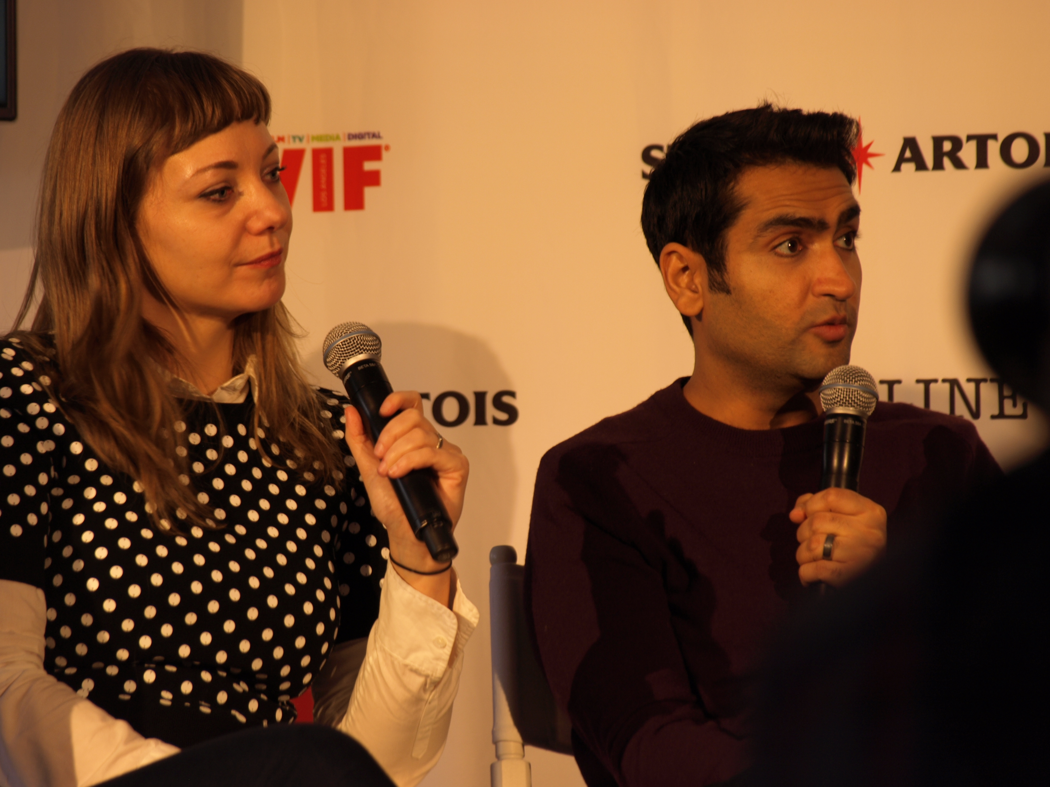 "The Big Sick" panel at Sundance 2017, Park City UT